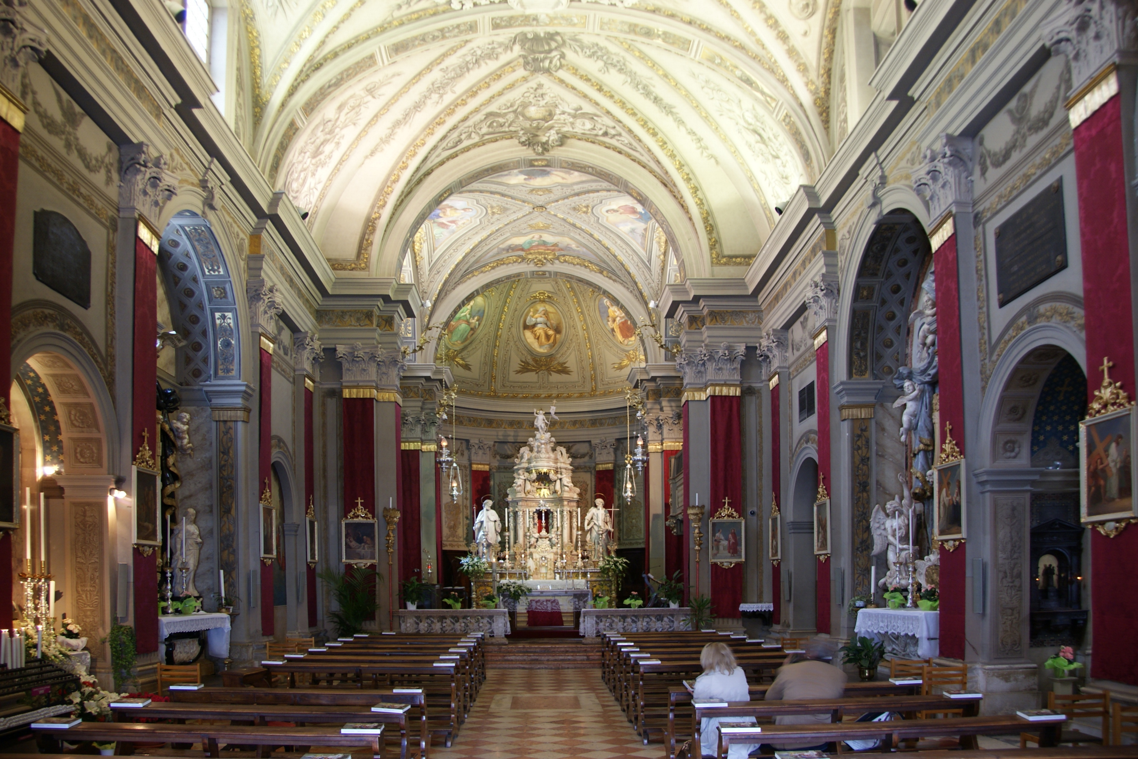 Udine, interior of San Giacomo